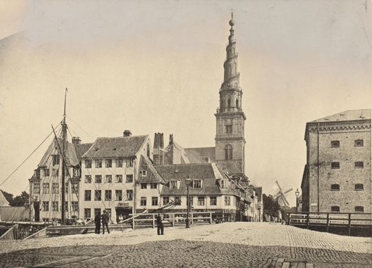 Sankt Annæ Gade at the Snorrebroen bridge with the Women's Prison (now demolished) seen to the left in Copenhagen, Denmark